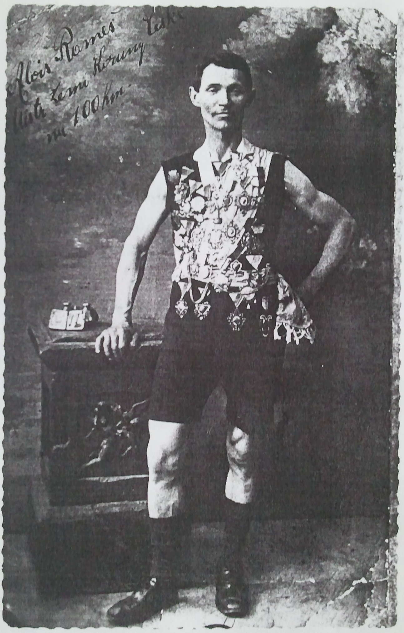 Alois Rameš, cyclist, sportsman